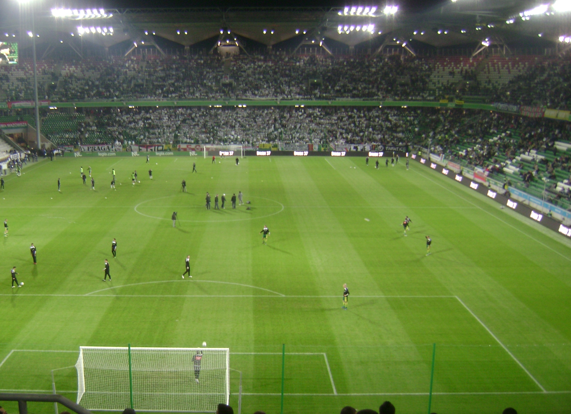 Charity football match Legia - Den Haag, 10-10-2010